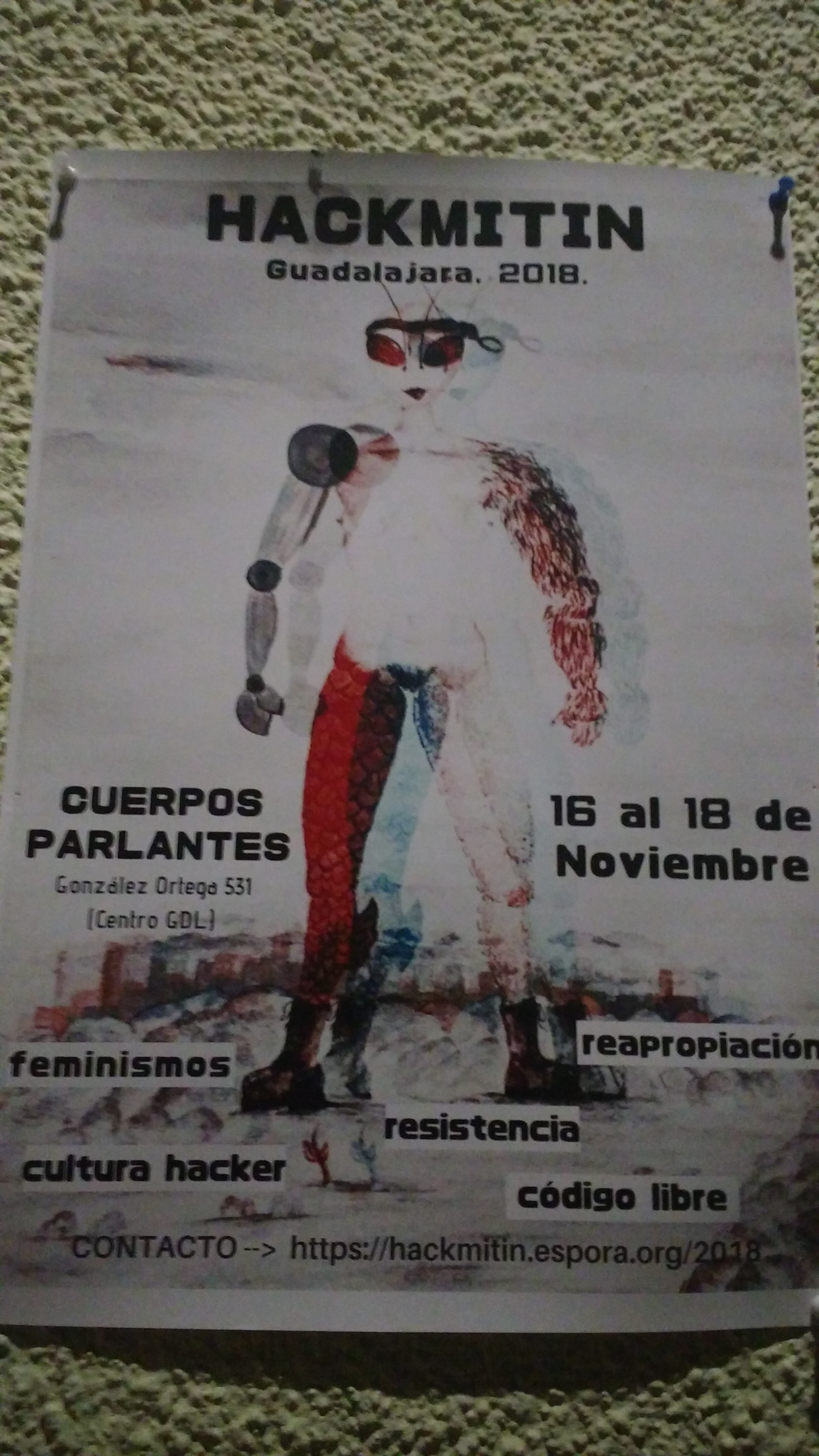 Poster used for Hackmitin (Hackmeeting) 2018 in Guadalajara, Jalisco, Mexico.